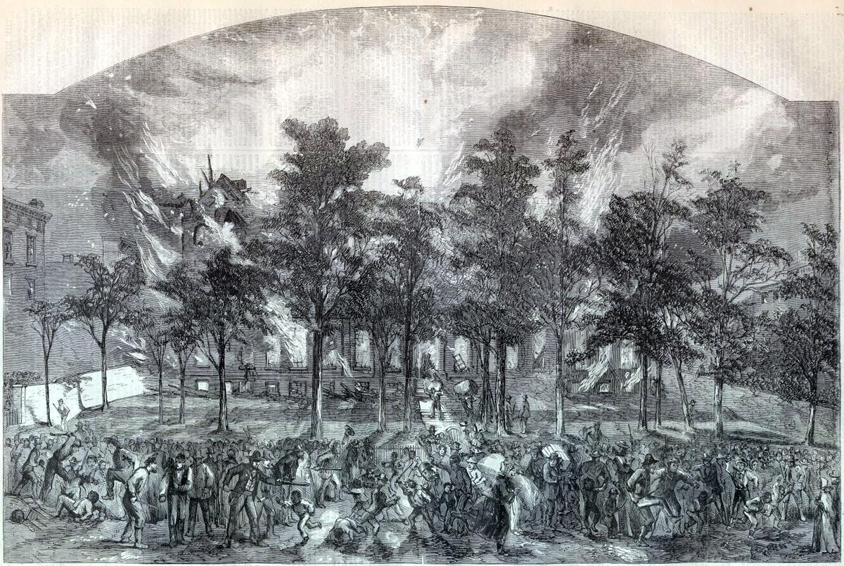 A full-page depiction of the destruction of an orphanage for African-American children. Original caption: "THE RIOTERS BURNING AND SACKING THE COLORED ORPHAN ASYLUM".